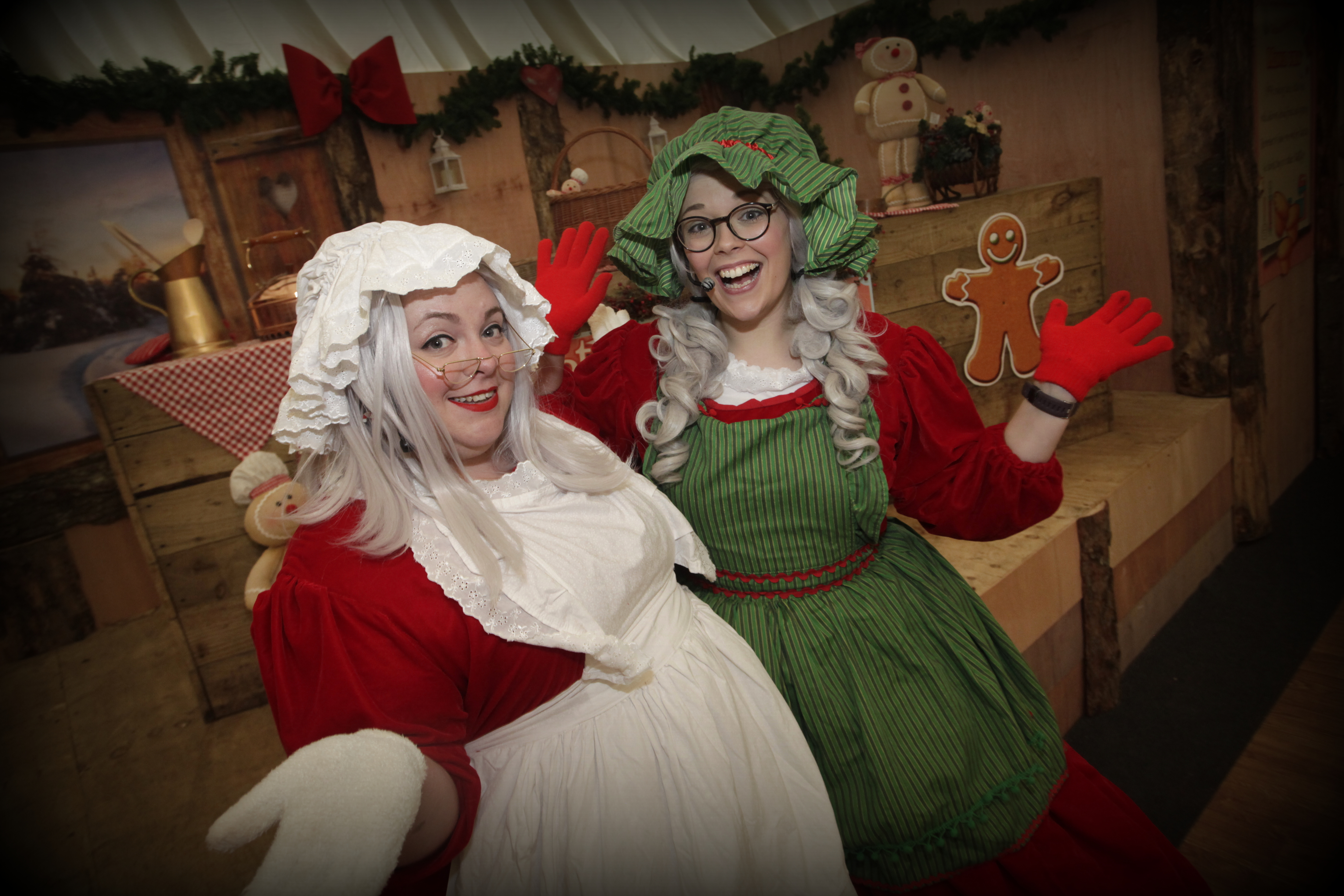 Mother Christmas at Tulleys Christmas event